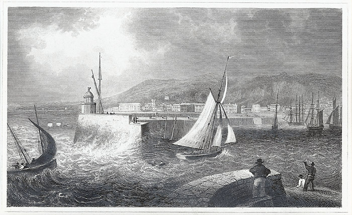 A view of the entrance to the harbour at Swansea with boats in the foreground and a lighthouse in the background.